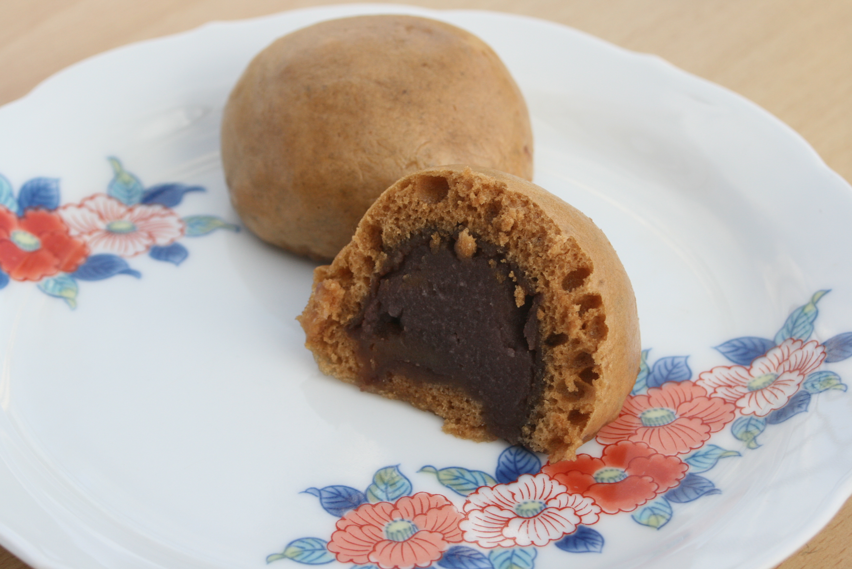 Yunohana Manjū by Shōgetsudō in Ikaho Shibukawa Gunma, Japan